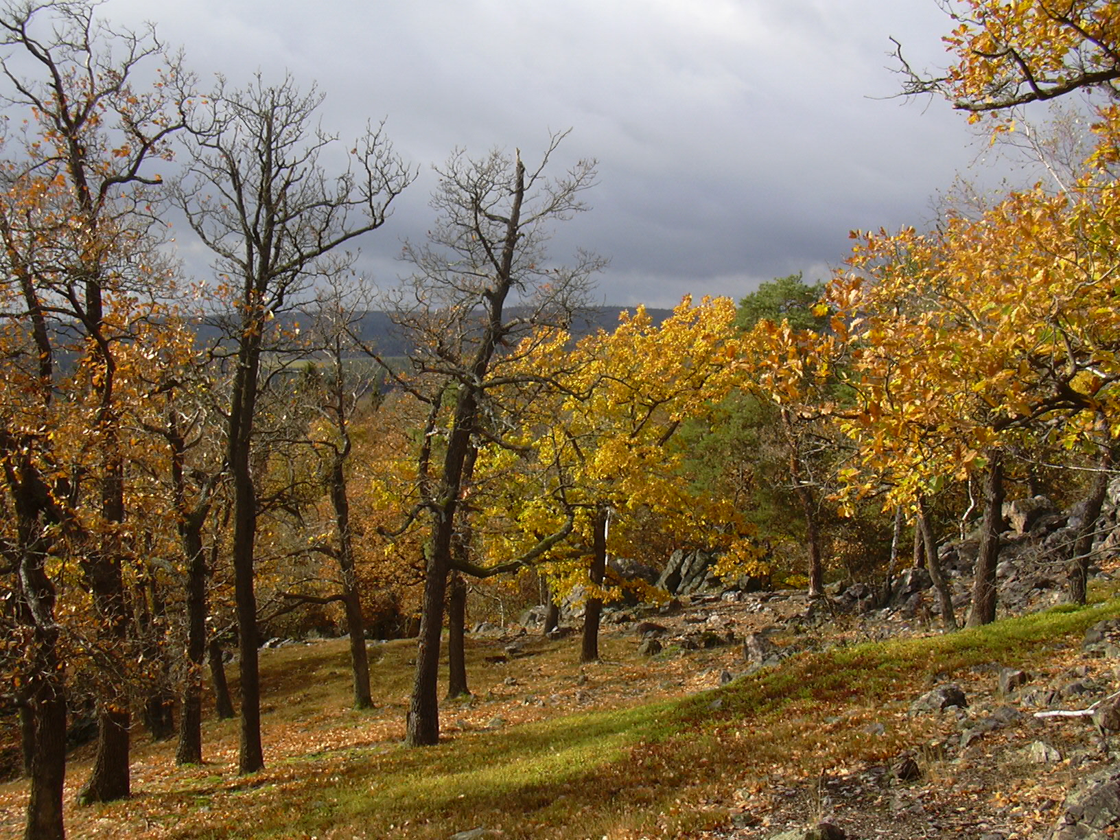 Oak wood on an isolated rocky outcrop in Křivoklátsko protected area, Czech Republic